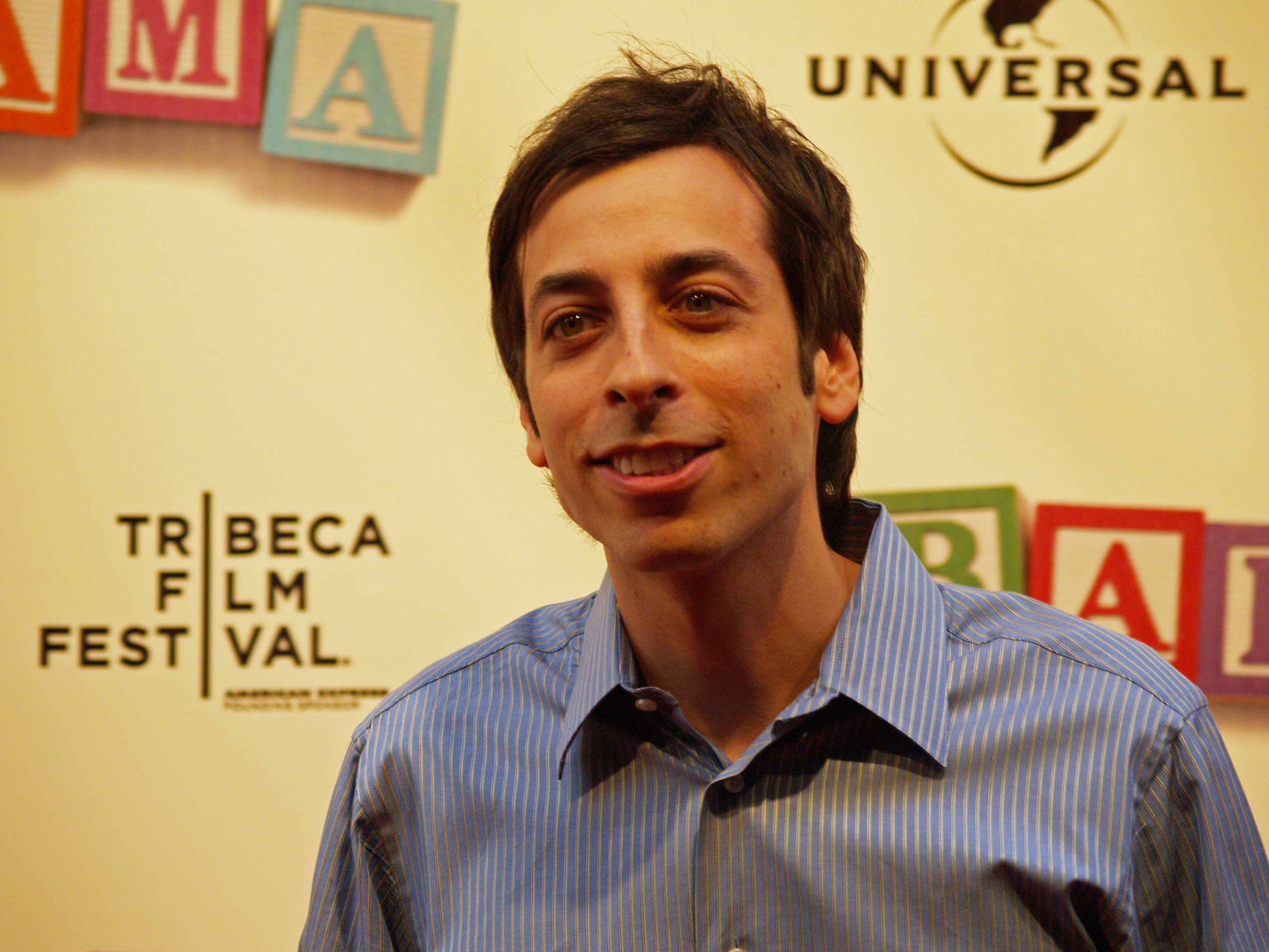 Lonny Ross at the premiere of Baby Mama in New York City at the 2008 Tribeca Film Festival.